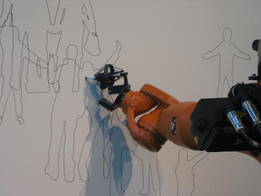 A KUKA industrial robot at the robot museum in Nagyoa,Japan drawing our silhouette after taking our picture.